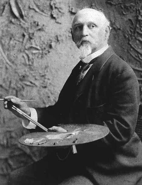 Photograph of Filippo Costaggini, artist of the United States Capitol